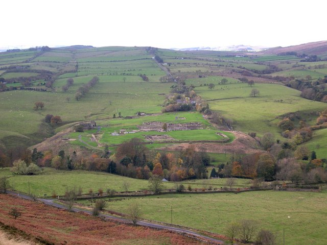 Vindolanda. The Roman Fort and the vicus from the Long Stone on Barcombe Hill